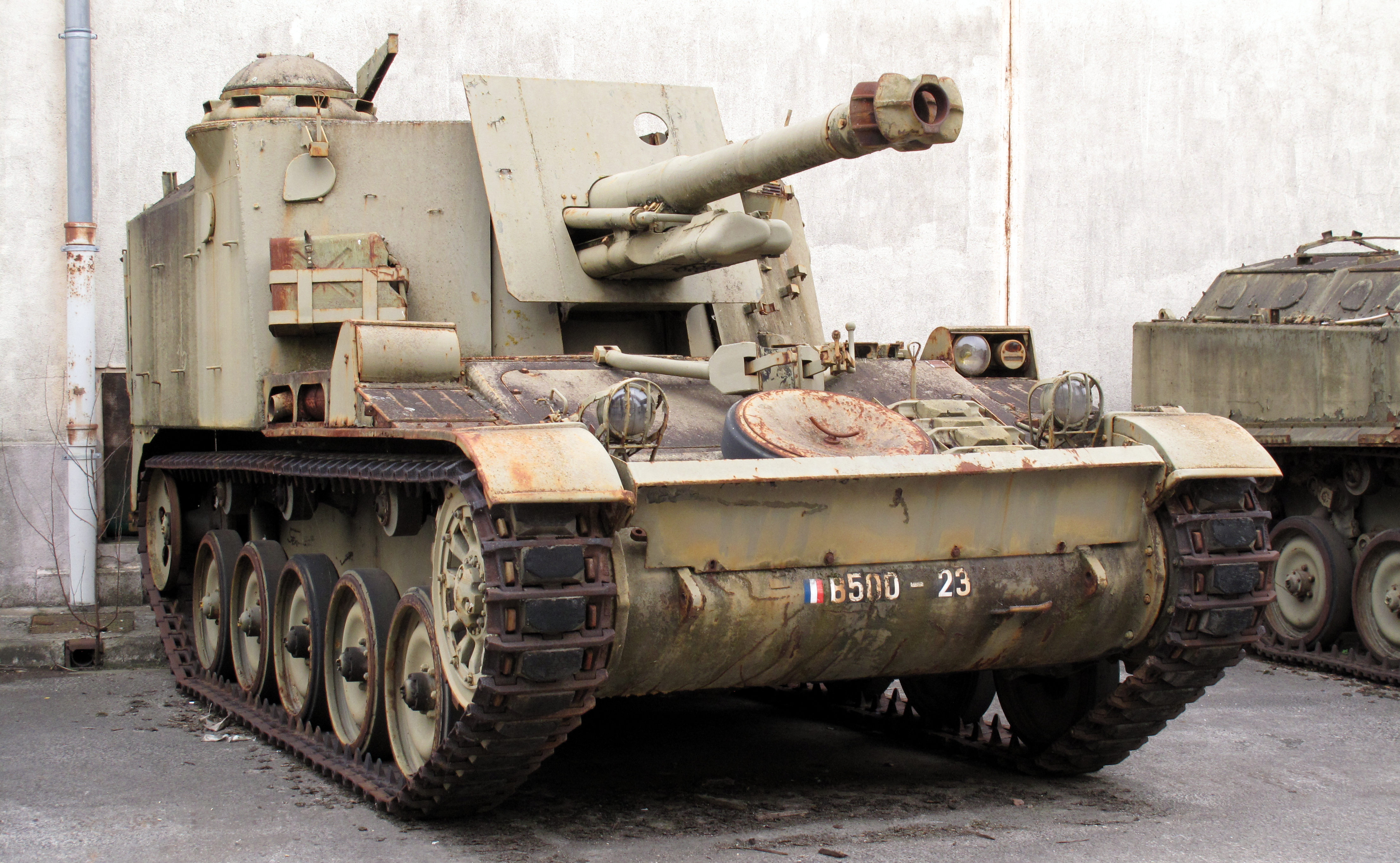 AMX-13 or variant. On display at Saumur Général Estienne museum.